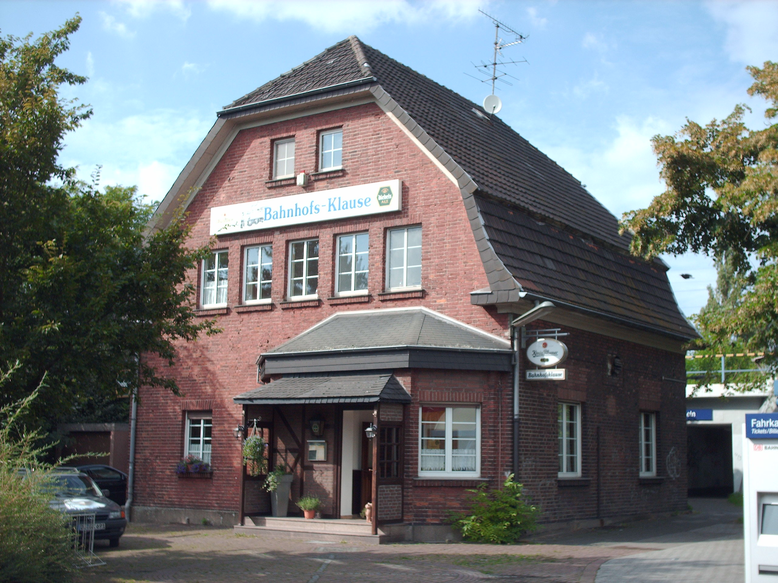 Rumeln station, Duisburg, Germany check usage